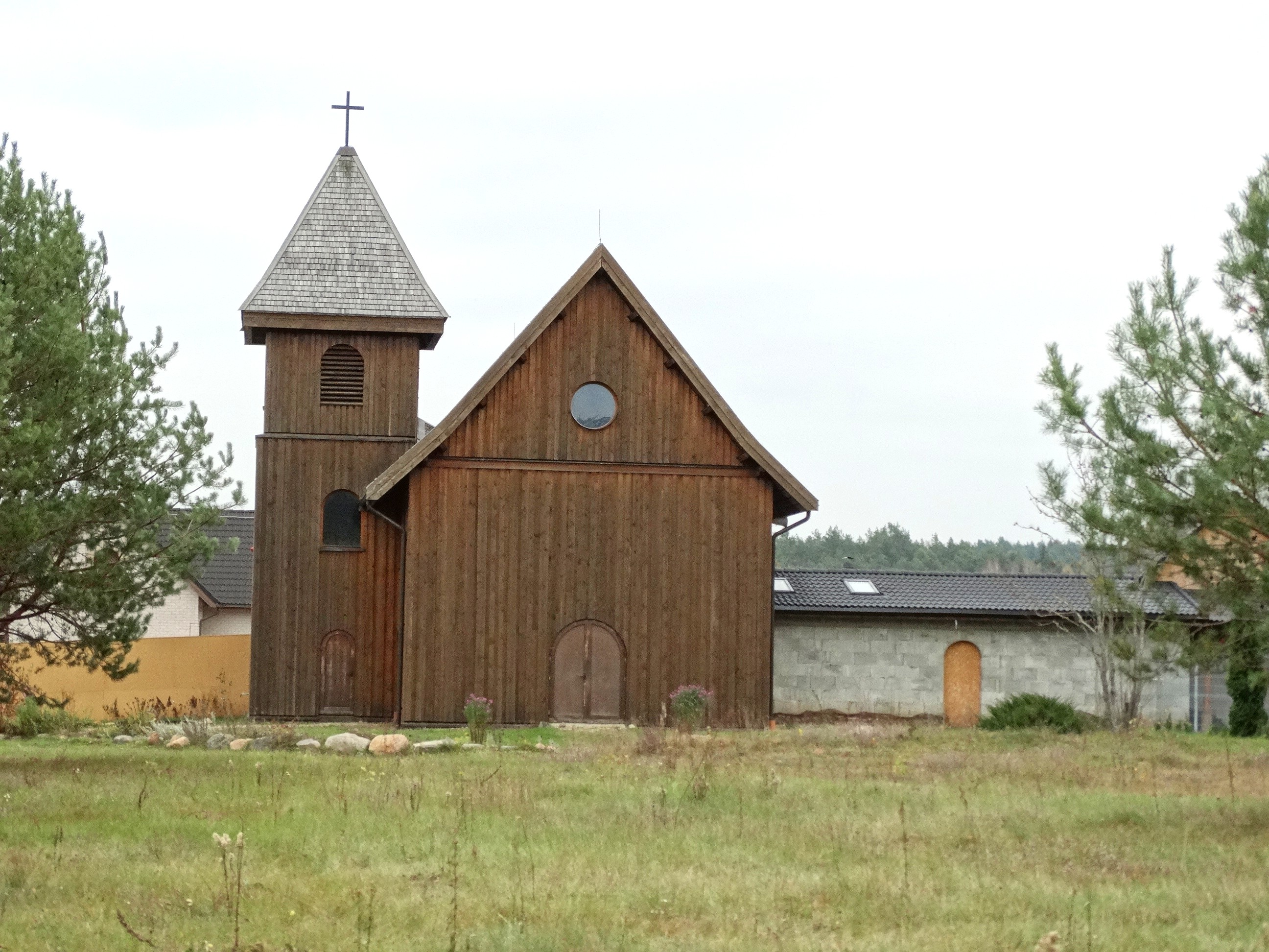 Monastery chapel in Paparčiai, Kaišiadorys District, Lithuania